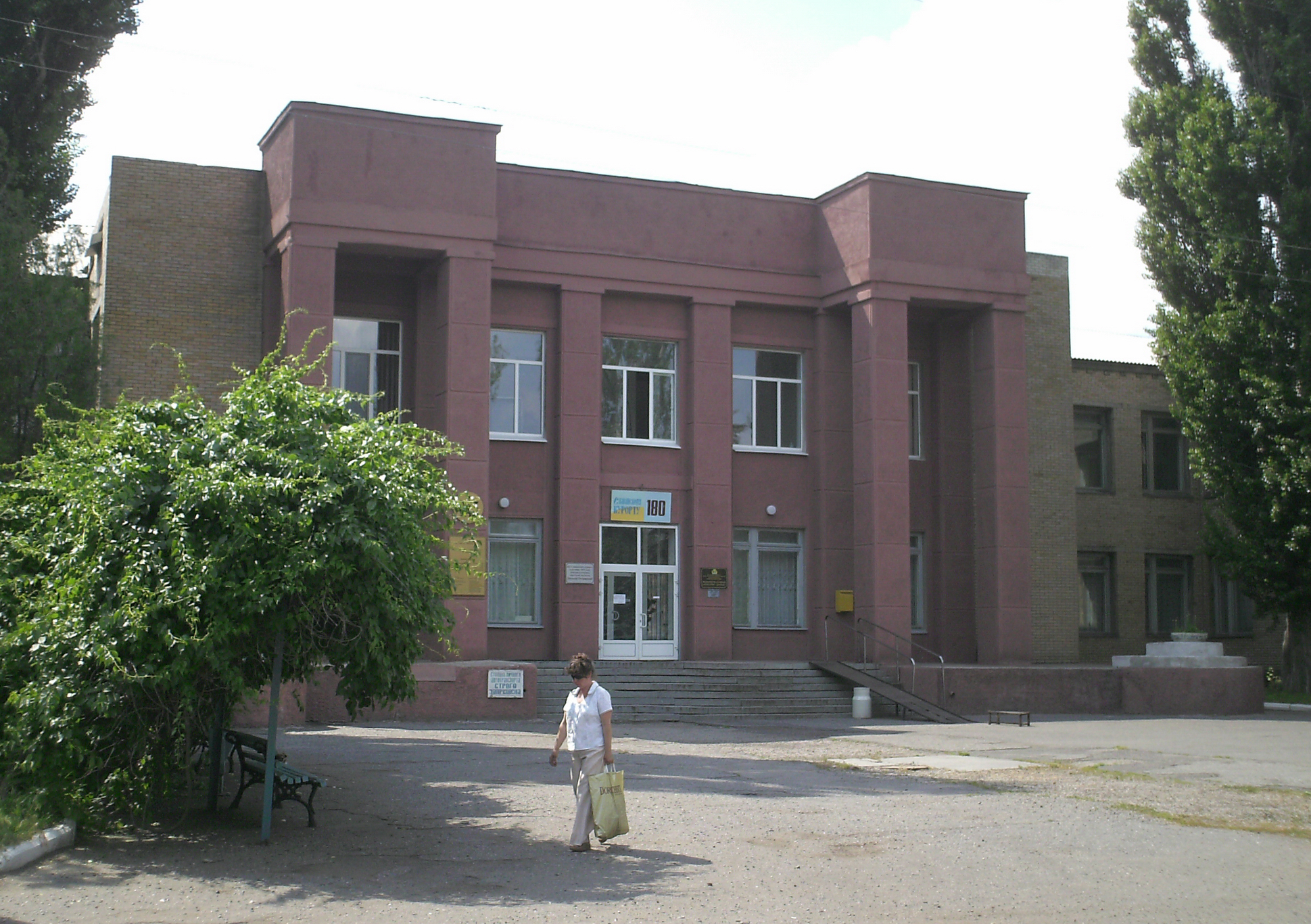 Balneological Institute in Sloviansk, Donetsk Oblast, Ukraine